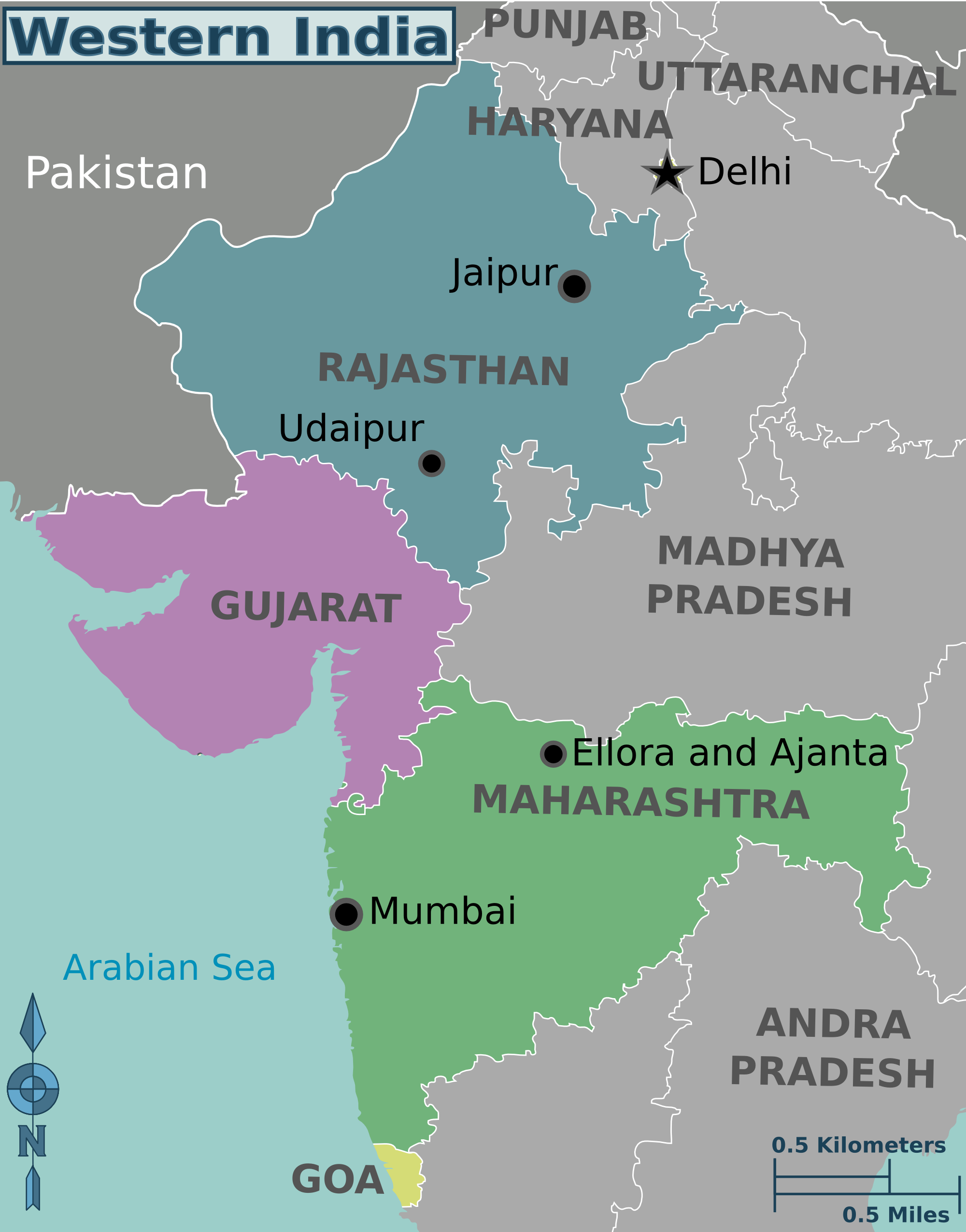 Western India map File:Western India WV.svg